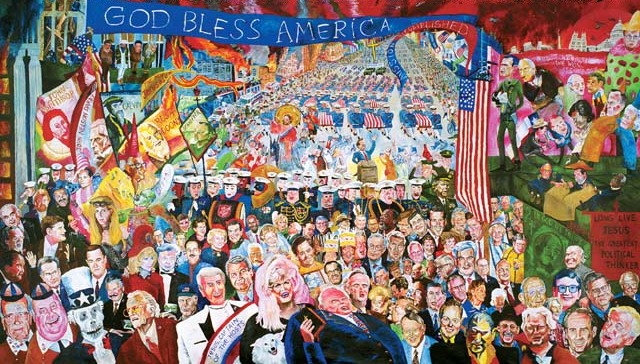 American Fundamentalists (Christ's Entry into Washington in 2008), Joel Pelletier (after James Ensor), 2004, acrylic on canvas, 8'2" x 14' 4"